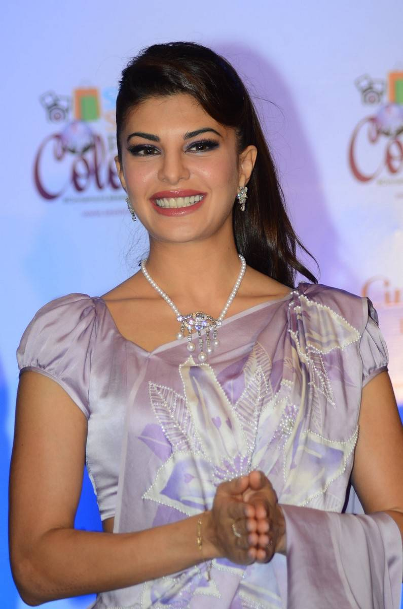 Jacqueline at graces the Srilankan Airlines media meet